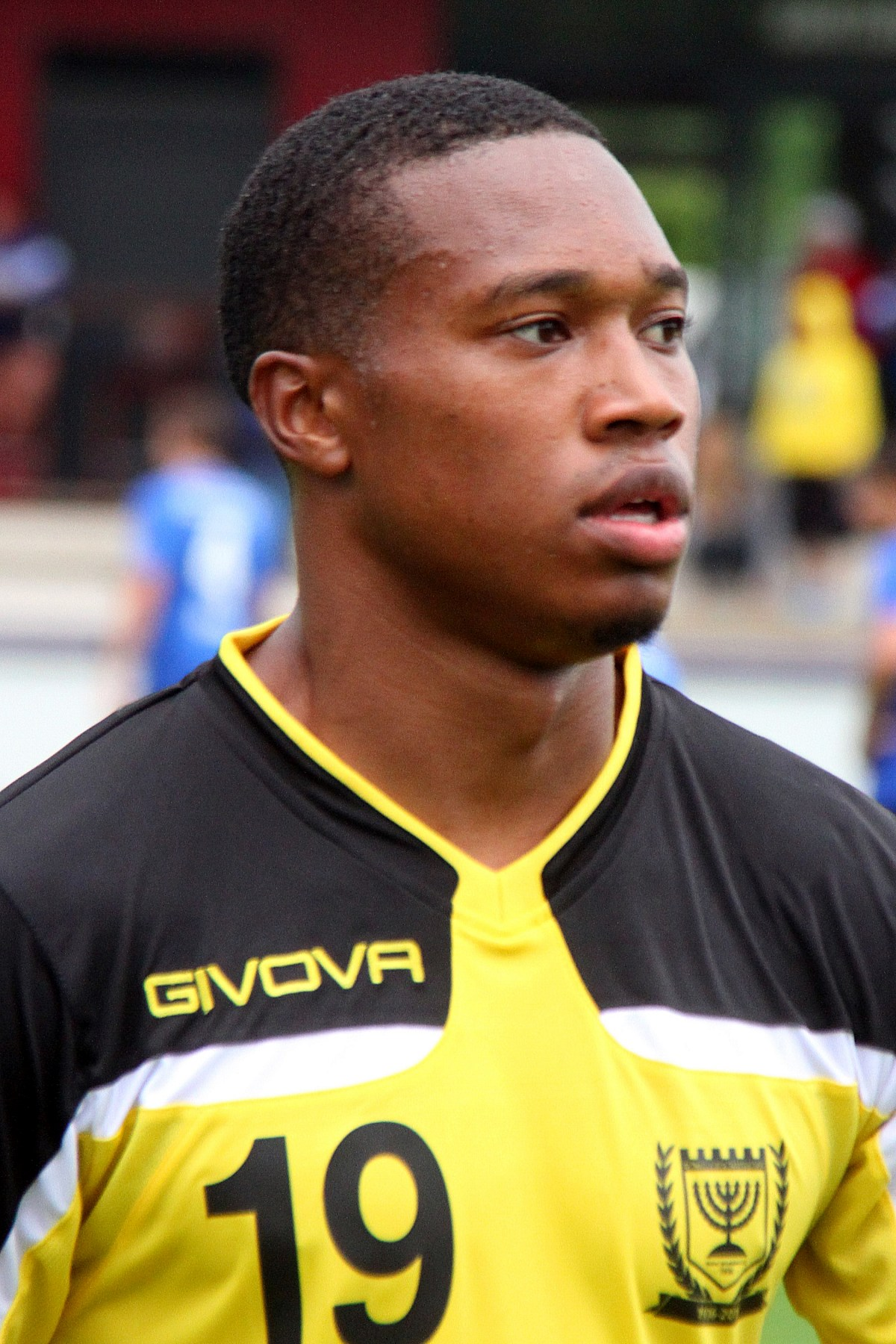 Friendly match between Beitar Jerusalem F.C. (yellow shirts) and MTK Budapest FC (blue shirts) at 2016-06-18 in Bad Erlach (Austria. – The photo shows Arsenio Valpoort, Beitar Jerusalem F.C.